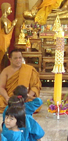 Location: Wat Khung Taphao Ban Khung Taphao, Khung Taphao subdistrict, Mueang Uttaradit, Uttaradit Province, Thailand.